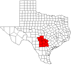 Map of Texas highlighting counties served by the Alamo Area Council of Governments; created by User:Acntx.